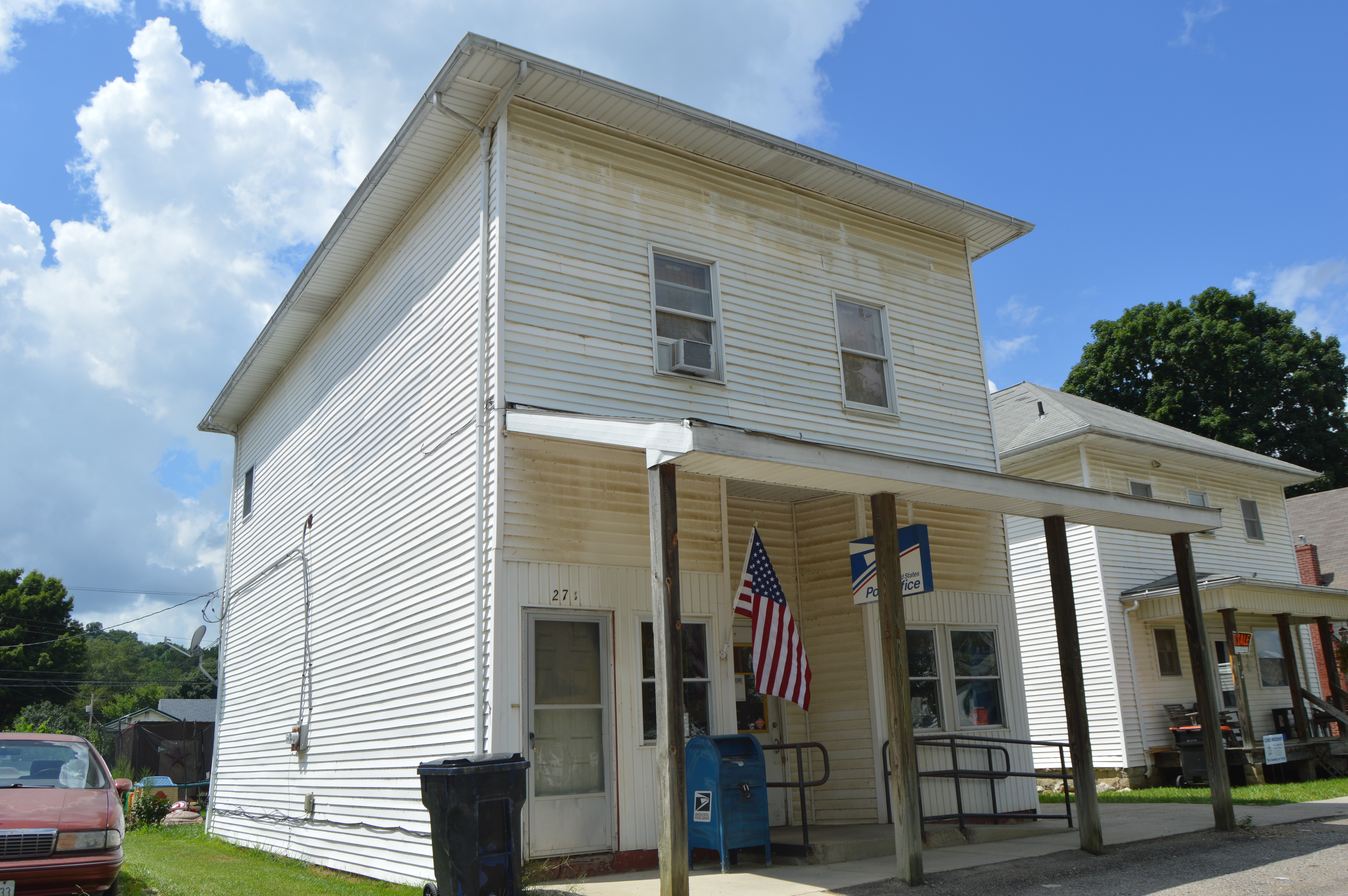 Front and southern side of the St. Louisville post office, located at 27 N. Sugar Street in St. Louisville, Ohio, United States.